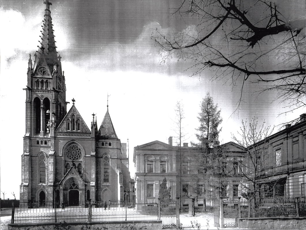 Catholic Heart of Jesus Church in Cieszyn